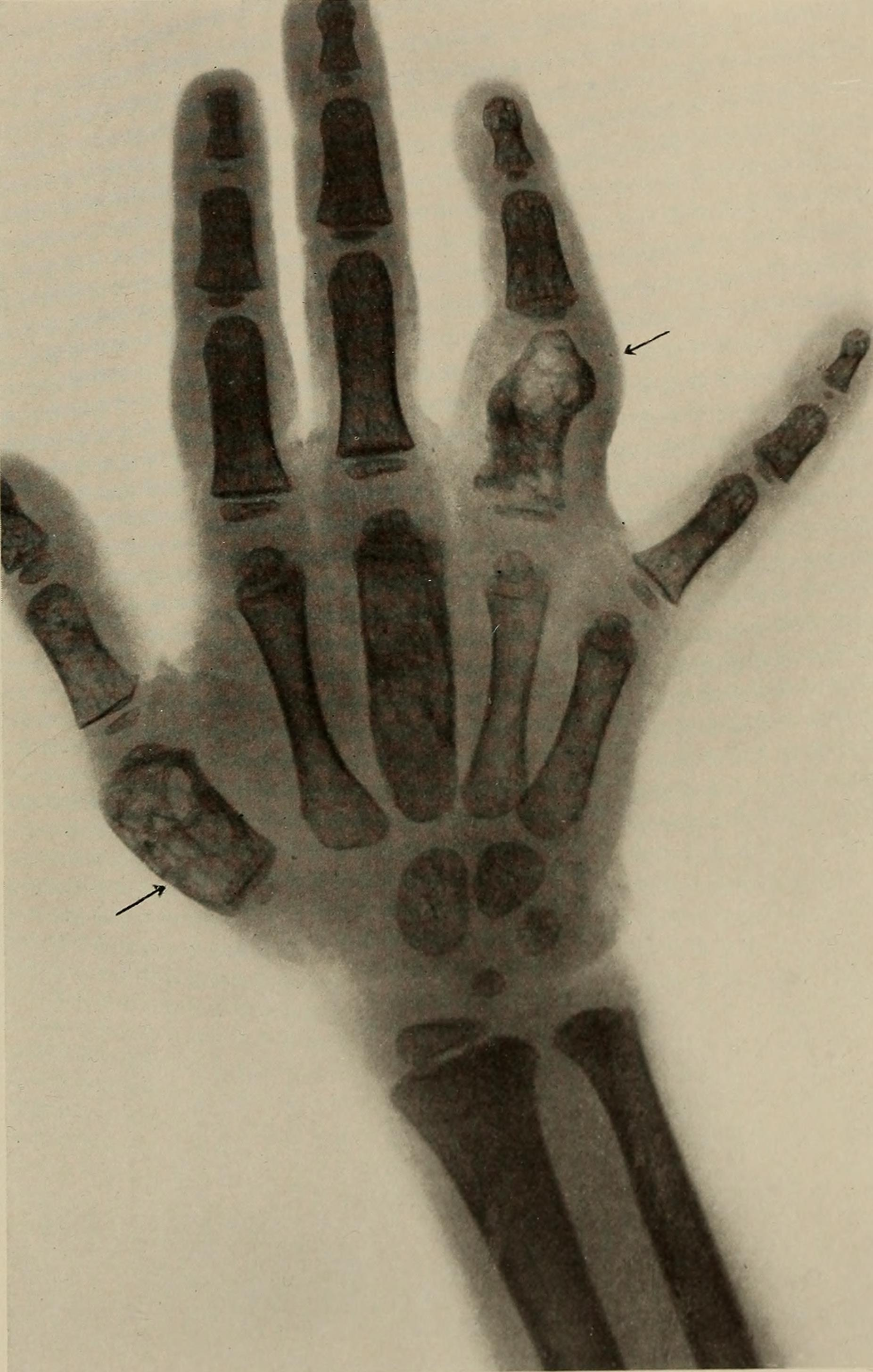 Title: Living anatomy and pathology; Year: 1910 (1910s) Authors: Rotch, Thomas Morgan Subjects: Children Diagnosis, Radioscopic Publisher: Philadelphia London, J. B. Lippincott company Text Appearing Before Image: PLATE 245.TUBERCULAR DACTYLITIS. Child, age 3 years. (Life size.) The first and third metacarpal and the first phalanx ofthe fourth finger show marked enlargement, deformity, anddestruction of bone tissue. Plate 245 Text Appearing After Image: PLATE 246. TUBERCULOSIS OF THE LOWER PART OF THE SHAFT OF THE ULNA. Child, age 3 years. (Life size.) The arrow points towards an area of actual absorption anda necrosis of the bone with a small sequestrum. Note that the ulna has no developed epiphysis. Plate 246